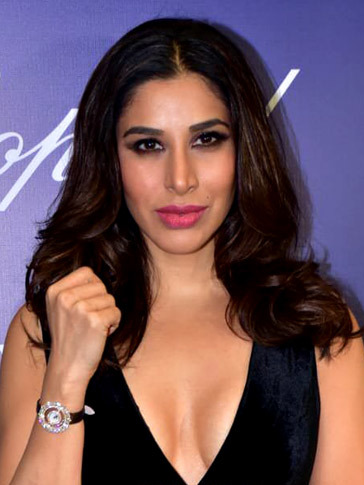 Sophie Choudry graces at Timekeepers Chopard event